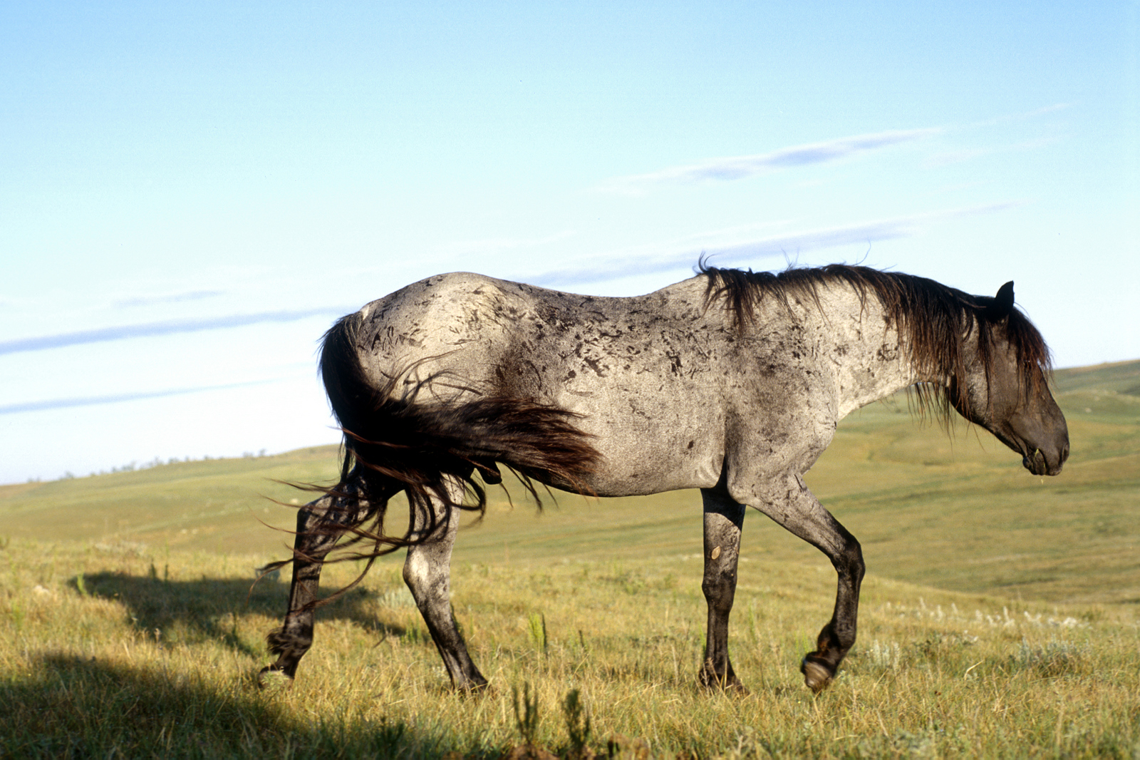 Blue Moon, blue roan Nokota stallion